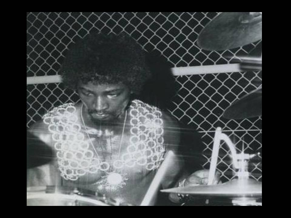 Drummer Robin Russell at Griffith Park (by the tennis courts next to the Merry-Go-Round), Los Angeles, California -1974